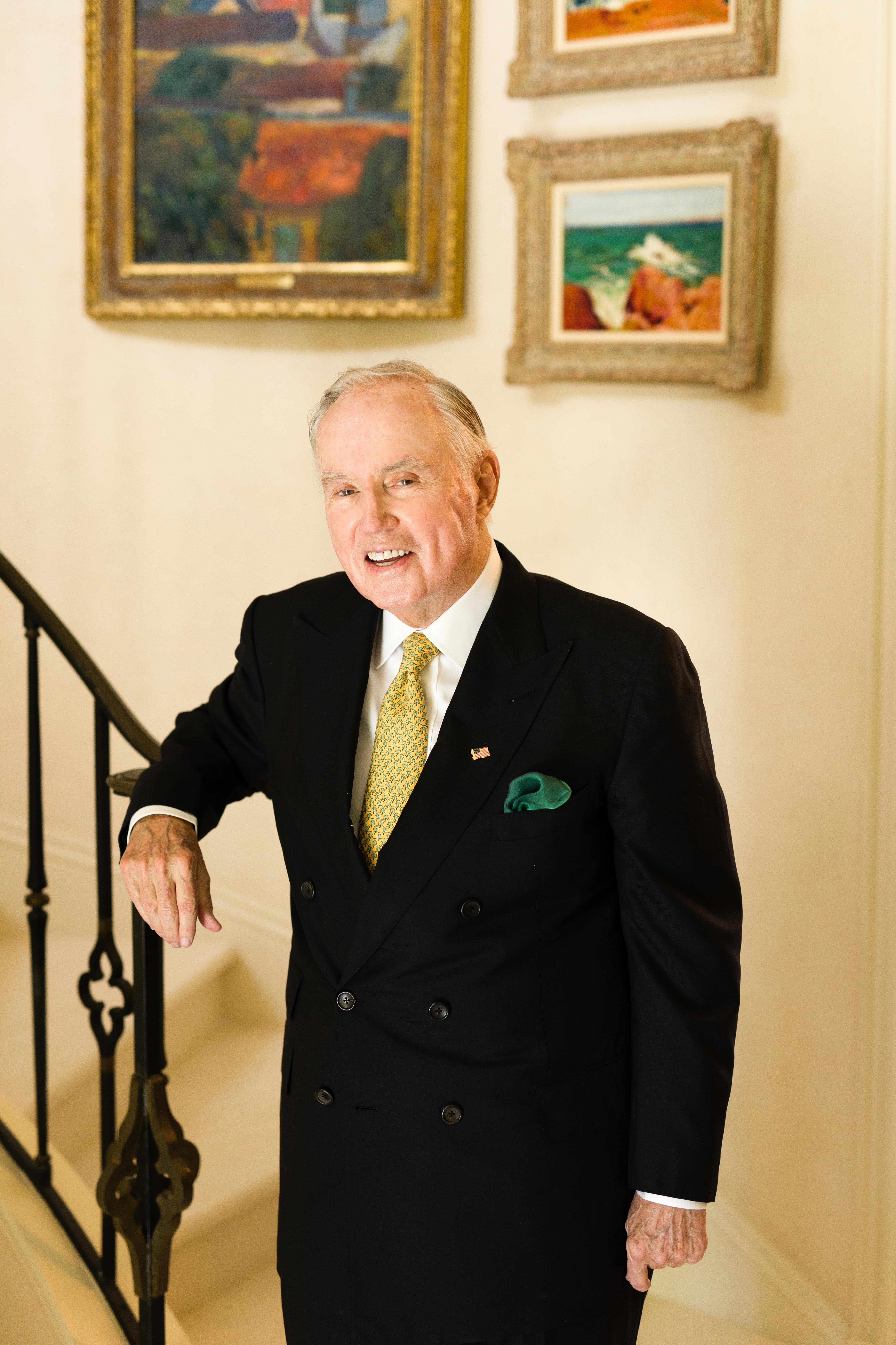 Photo by Chris Salata/Capehart Copyright 2016